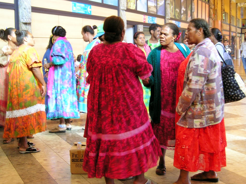 A group of Kanak Women from New Caledonia (France).